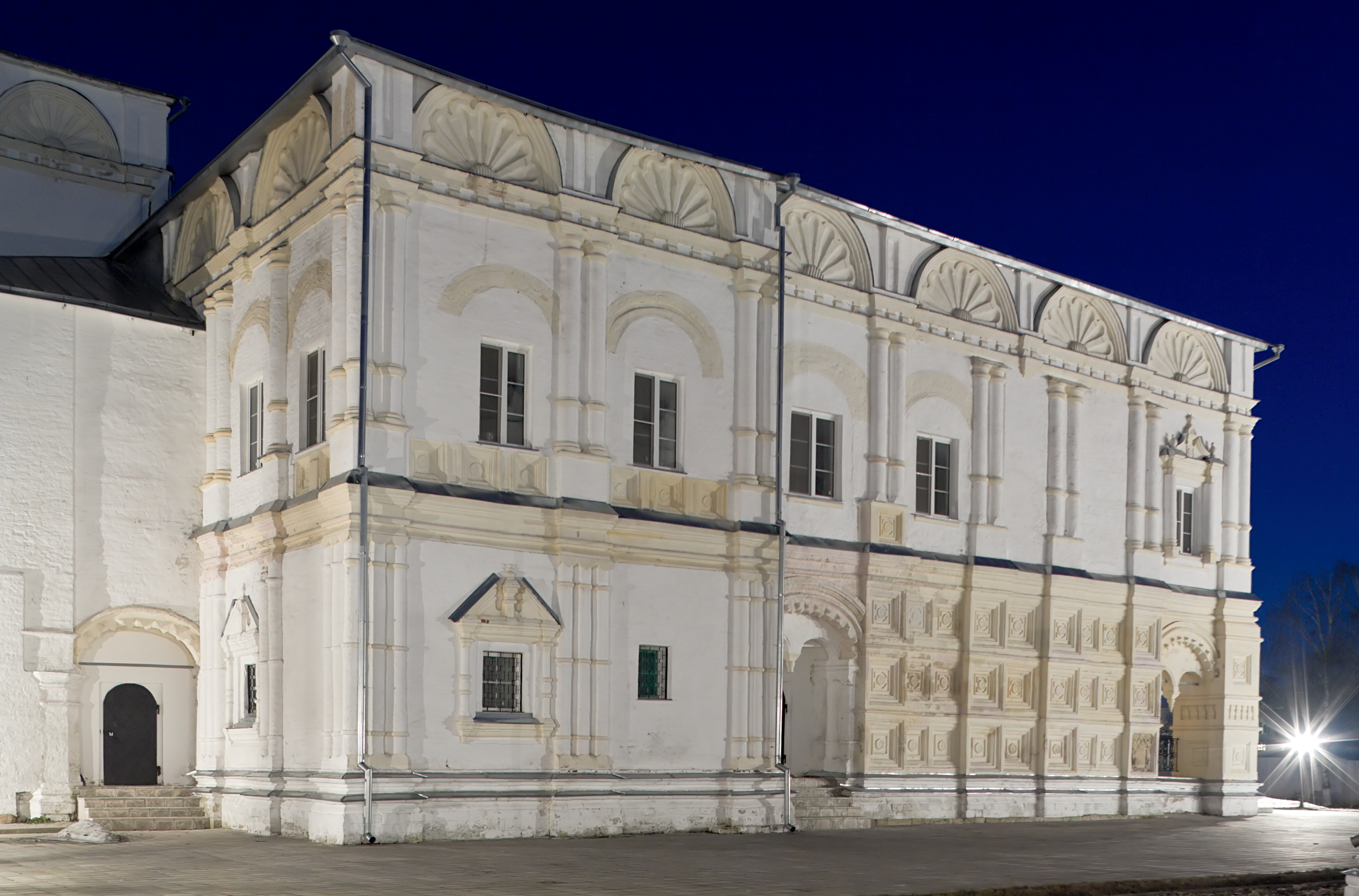 Danilov monastery in Pereslavl, church of Praise of Virgin Mary. North view.